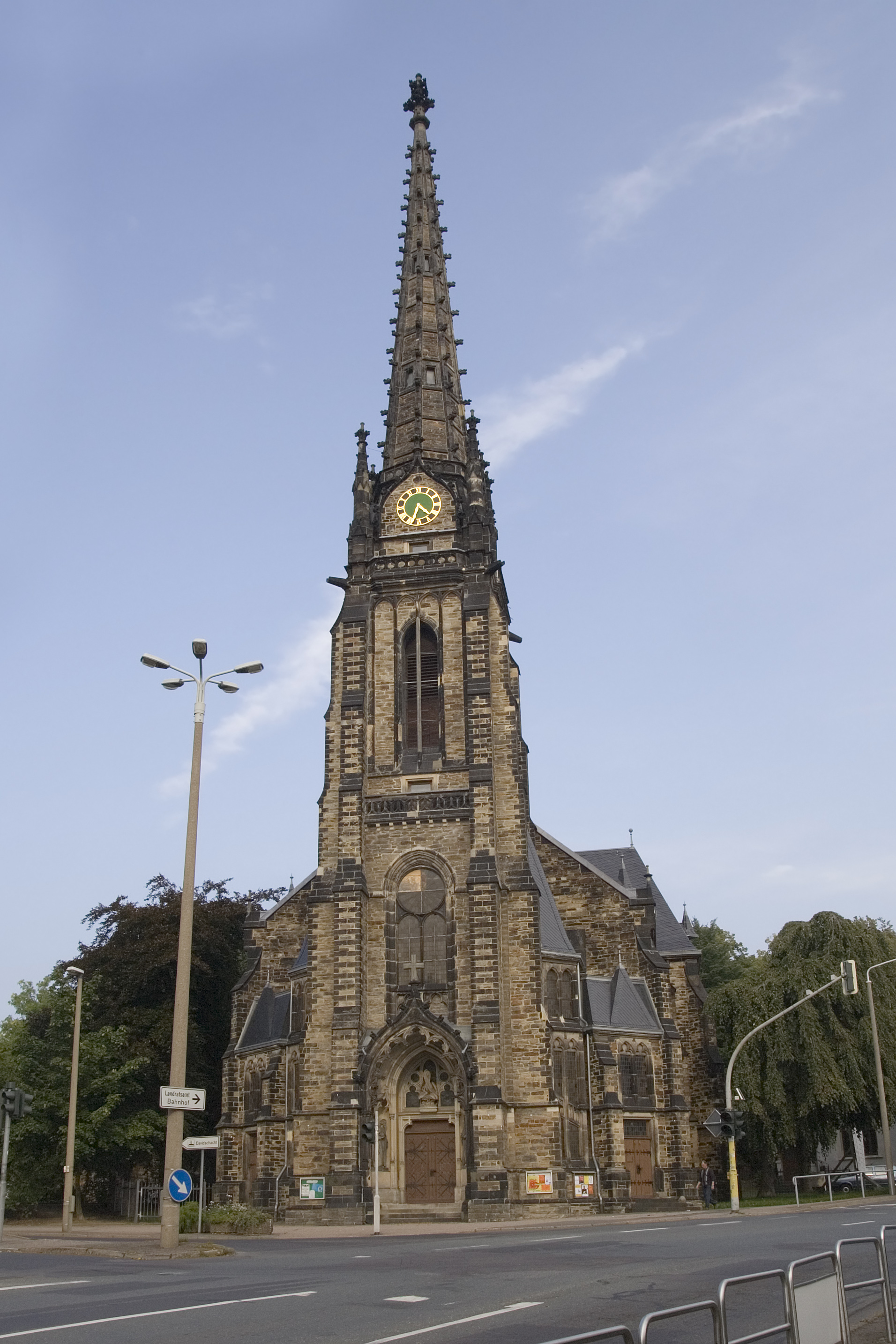 Freiberg, Saxony, church Jakobikirche